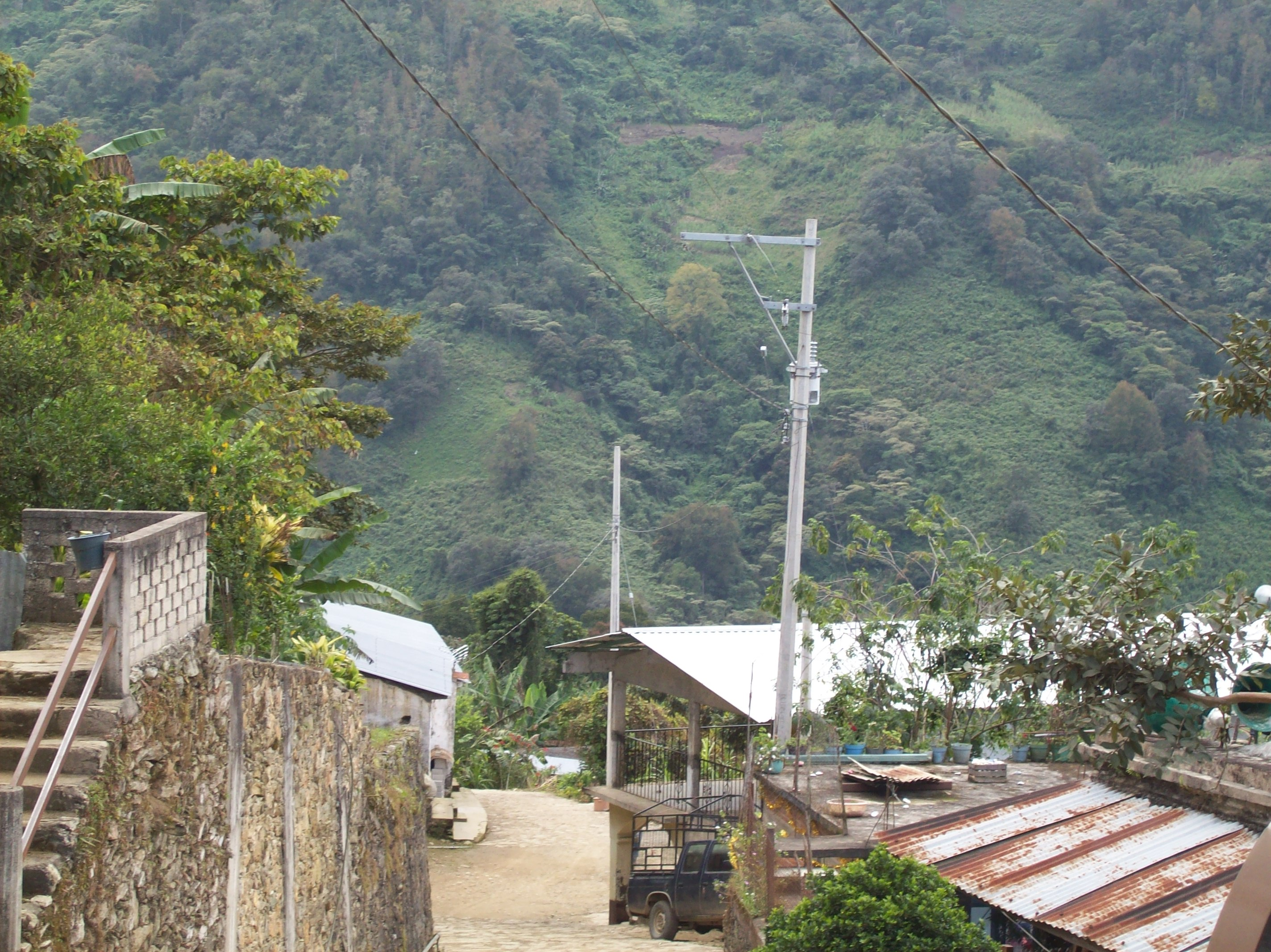 san josé chinantequilla municipio